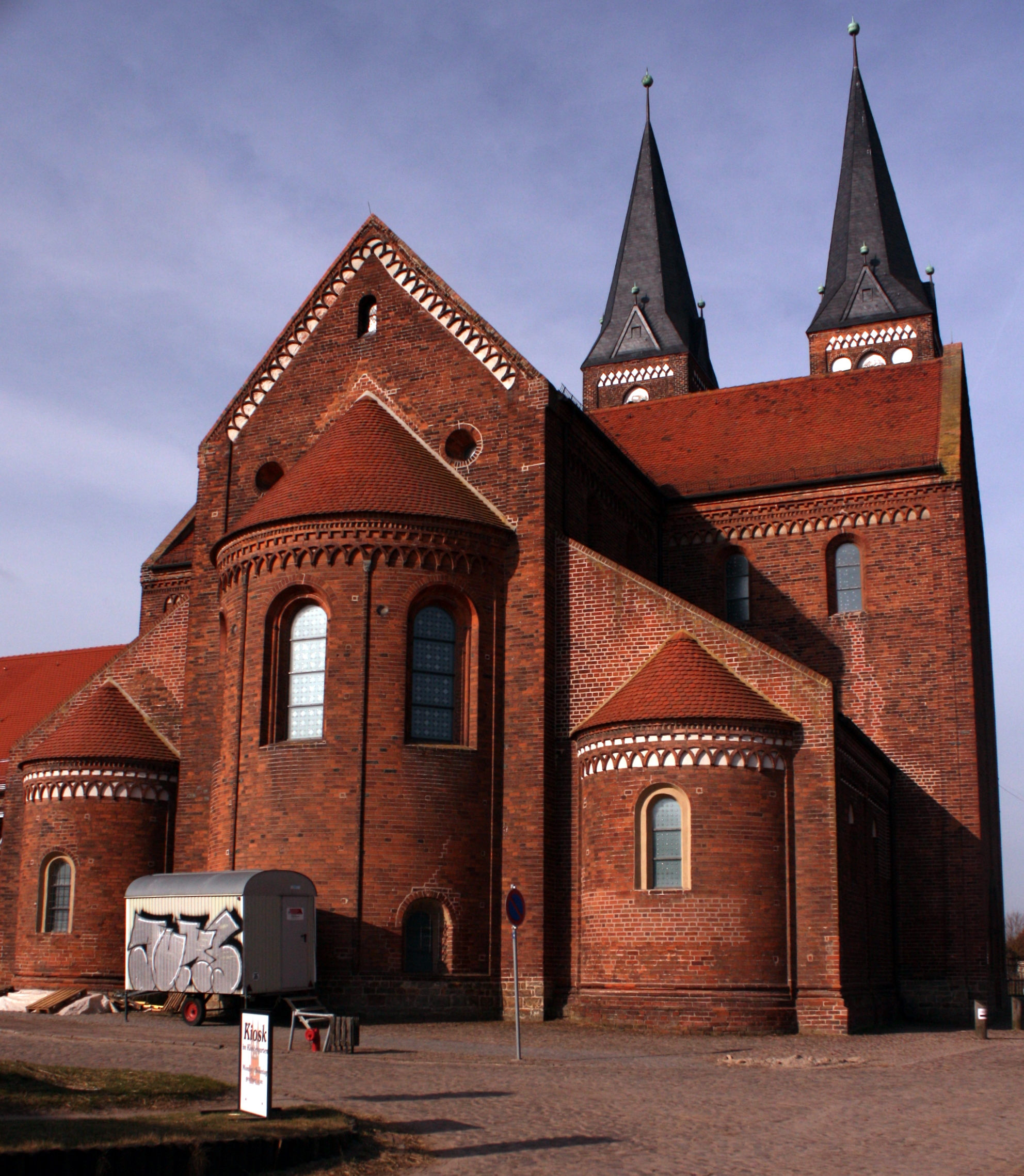 Jerichow (Sachsen-Anhalt) Church and Premonstratensians Monastery